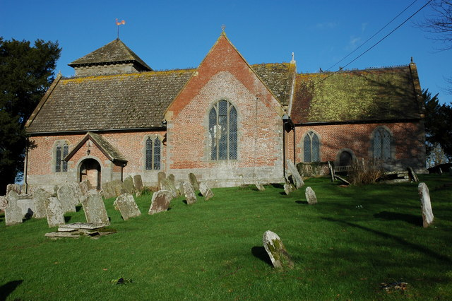 Norton Canon church Norton Canon church is dedicated to St Nicholas. According to Pevsner the tower dates from the 13th century, and the nave, chancel and transepts were built in brick in the early 18th century, with the medieval church windows incorporated into the walls.